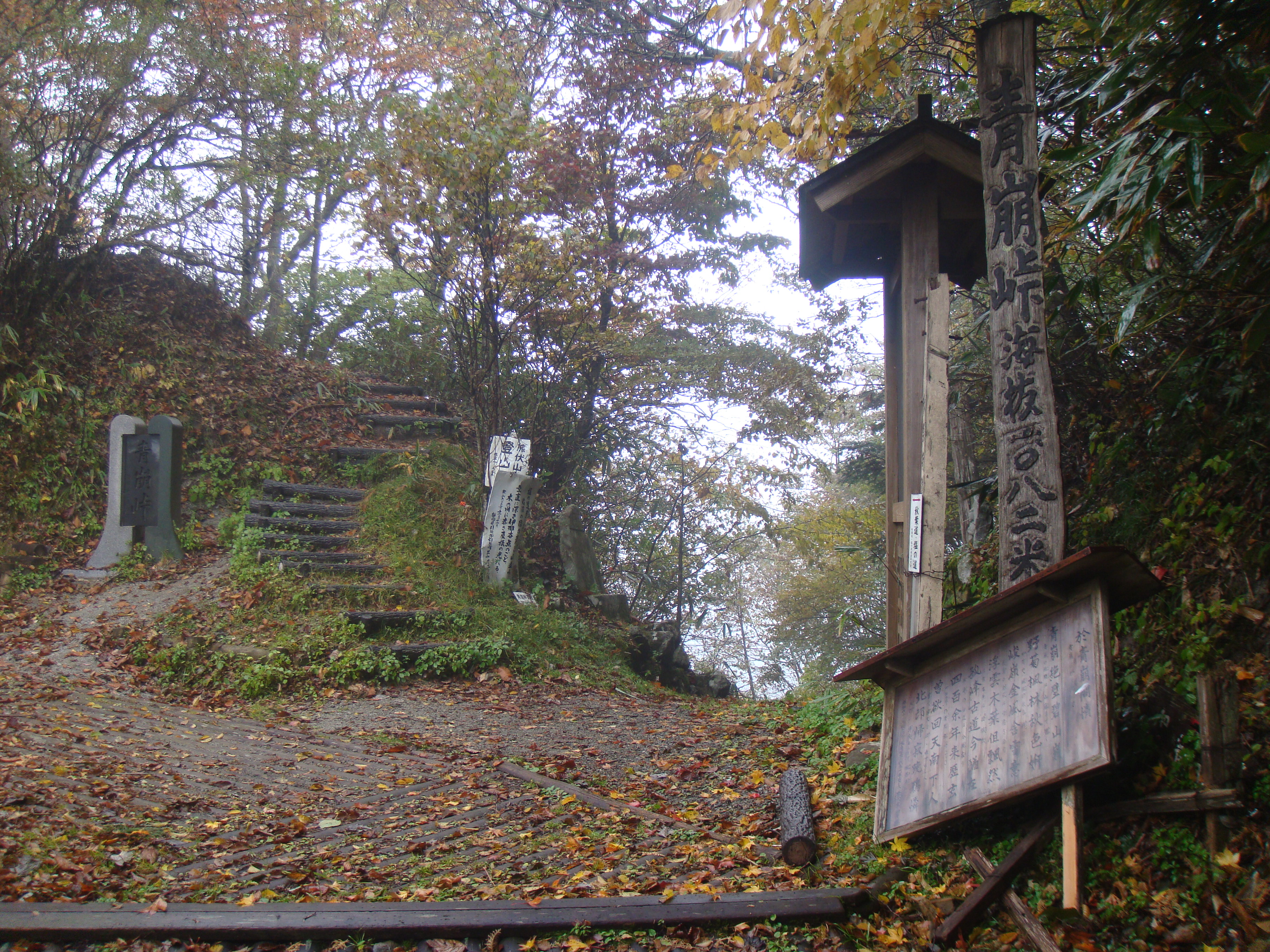 Aokuzure Pass Place - Misakubocho-Okuryoke,Tenryu Ward,Hamamatsu City,Shizuoka Prefecture,Japan Date - October 25, 2009 Format - JPEG, 3648x2736pixel, 24bit colors Photographer - NALA Wiki (talk)